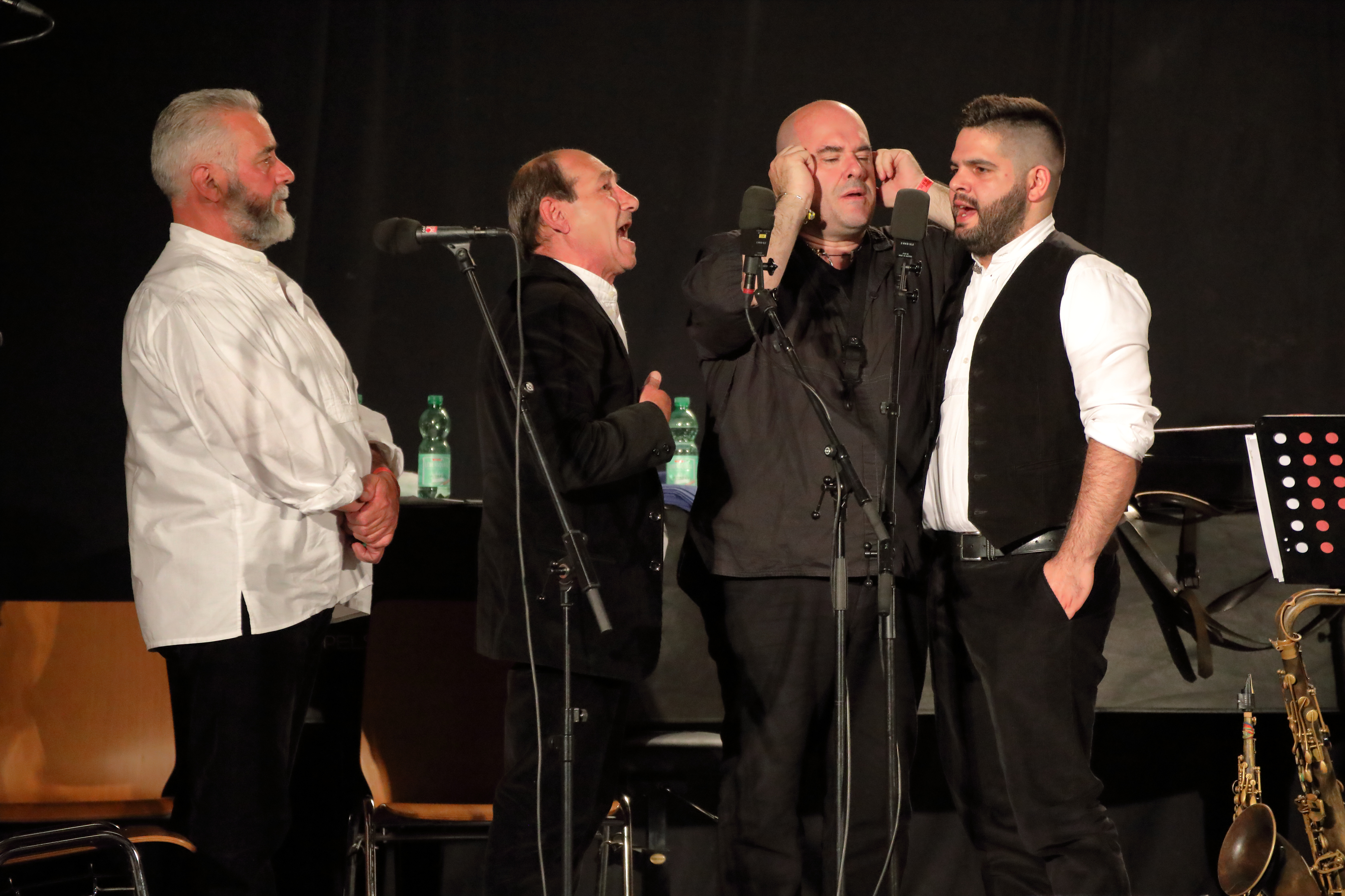 The sardinian choir Tenore Goine di Nuoro with the Gavino Murgia Blast Quartet at INNtöne Jazzfestival 2019.